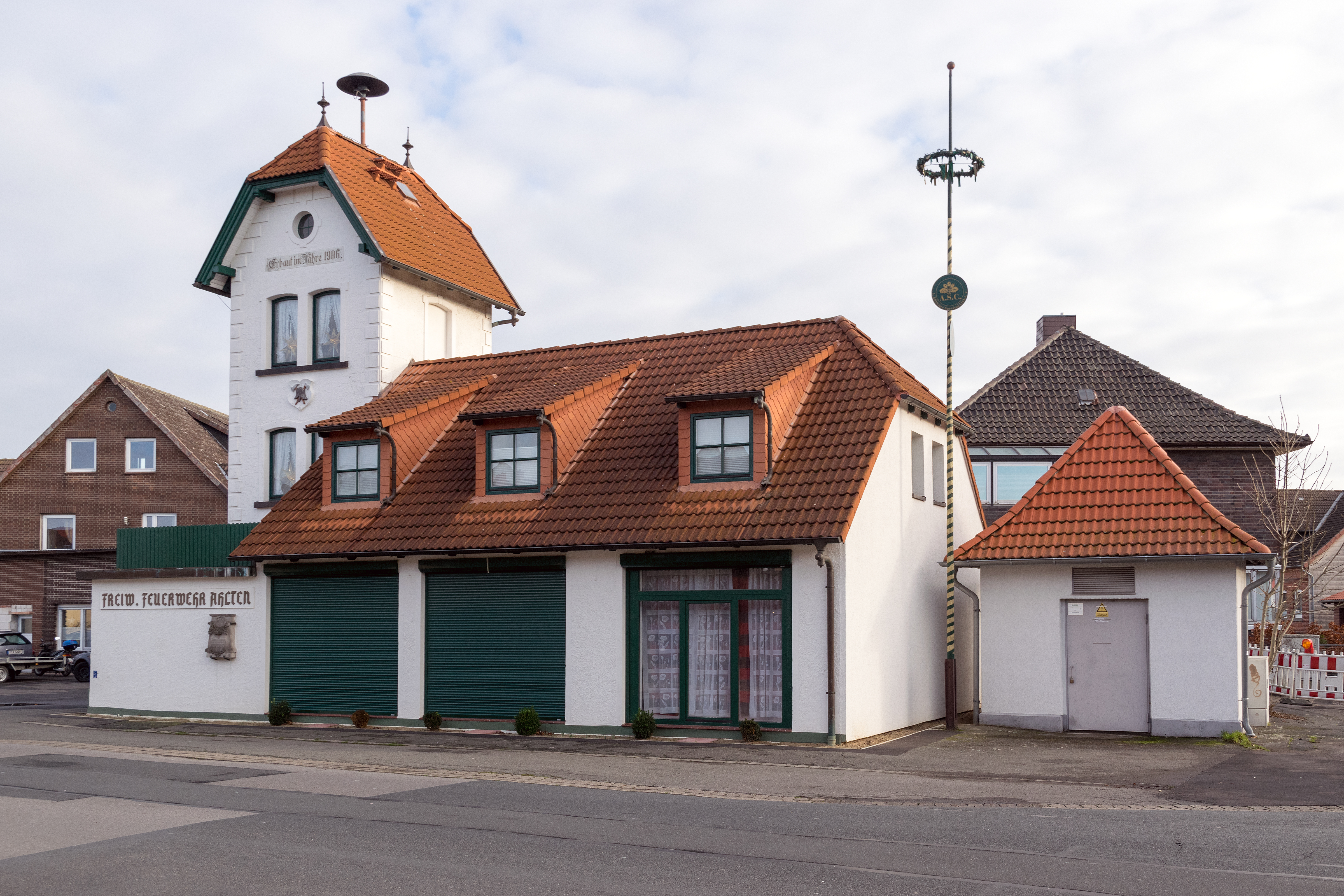 Volunteer fire department Ahlten